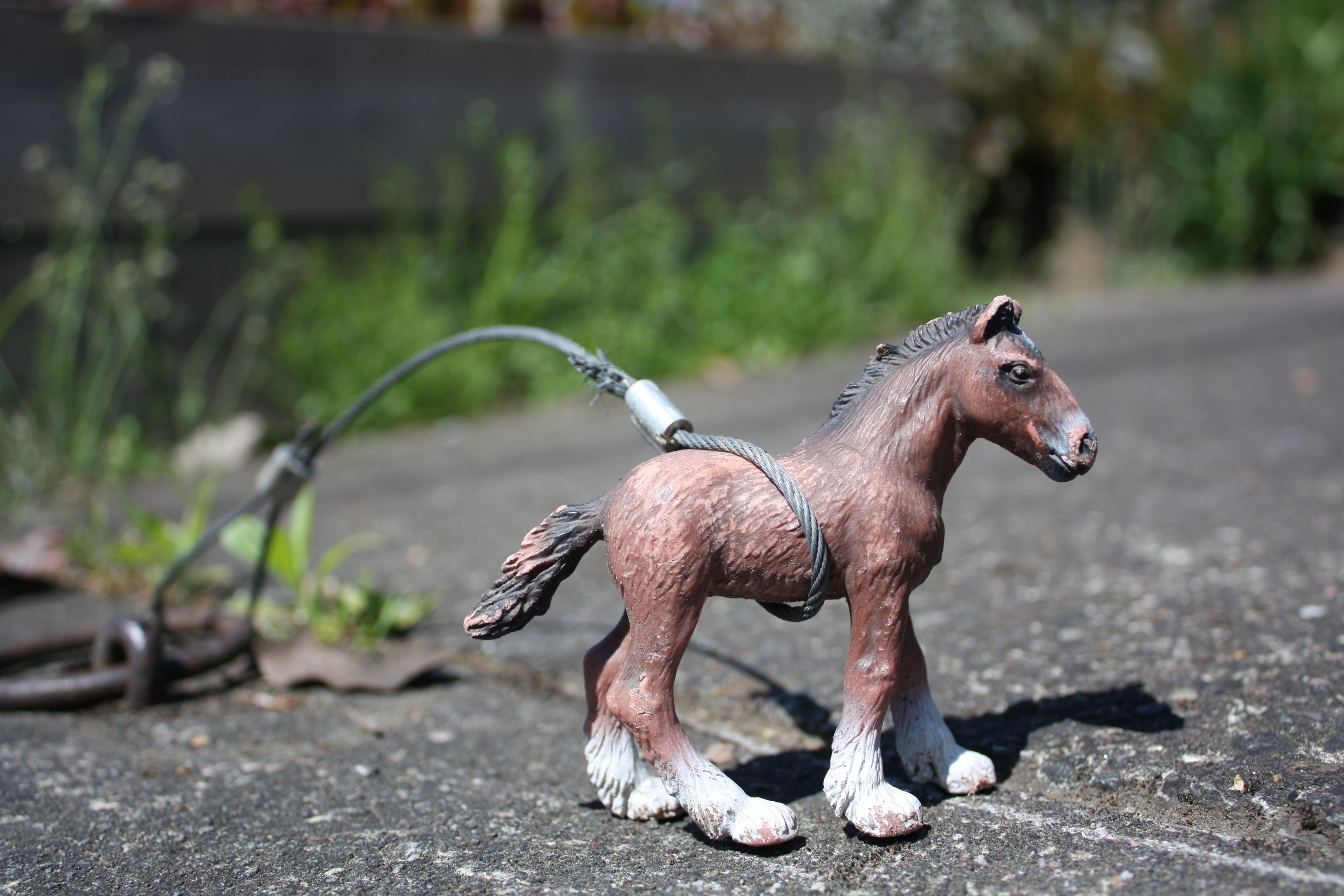 Toy horse tied to a sidewalk ring in Portland, Oregon